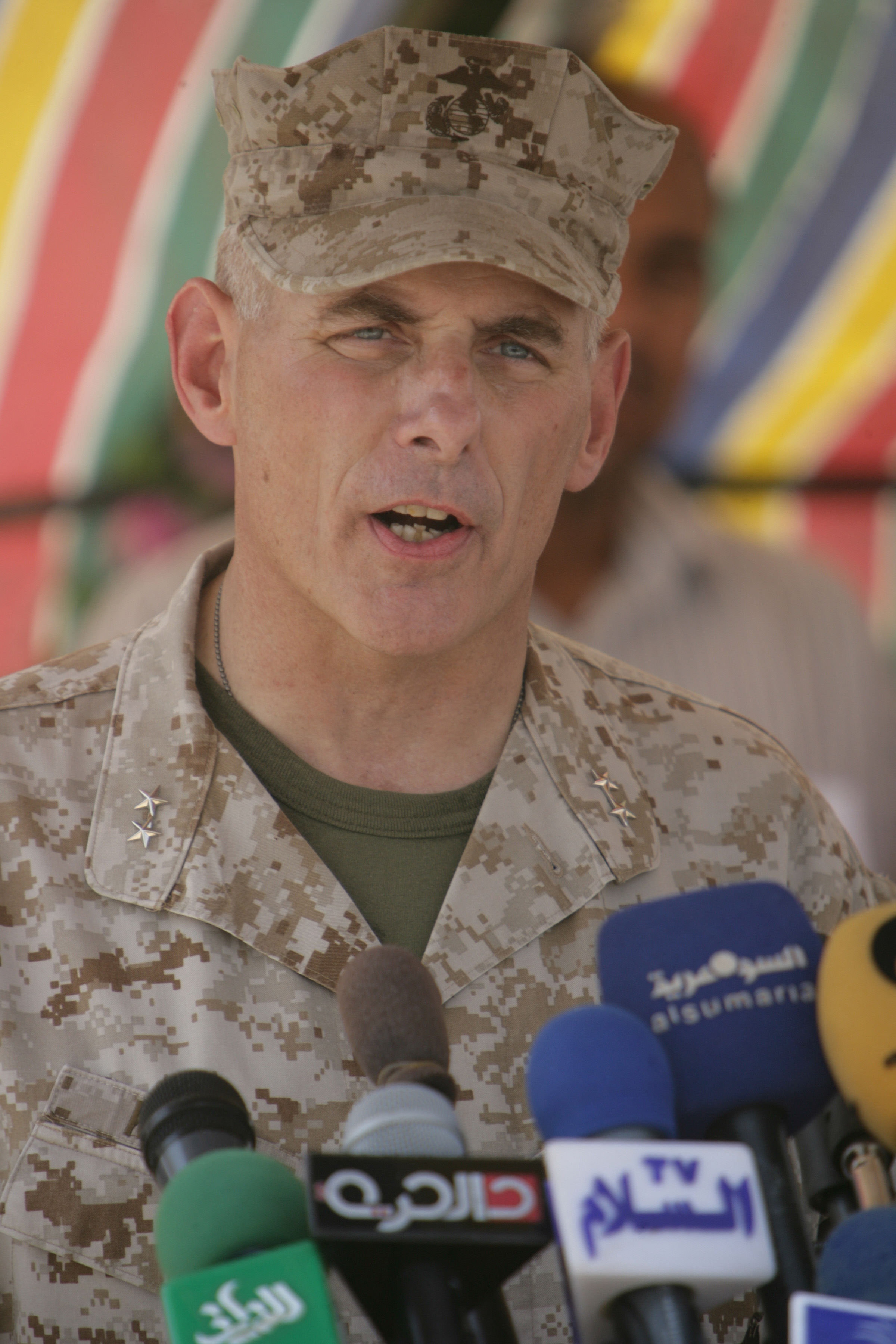 Maj. Gen. John F. Kelly, commanding general, Multi National Force - West speaks to the audience during the Provincial Iraqi Control ceremony at the Provincial Government Center in Ramadi on September 1, 2008. The ceremony commemorates the formal agreement turning security responsibilities of the al-Anbar province to the Government of Iraq. (U.S. Marine Corps Photograph by Capt. Timothy E. LeMaster/Released)